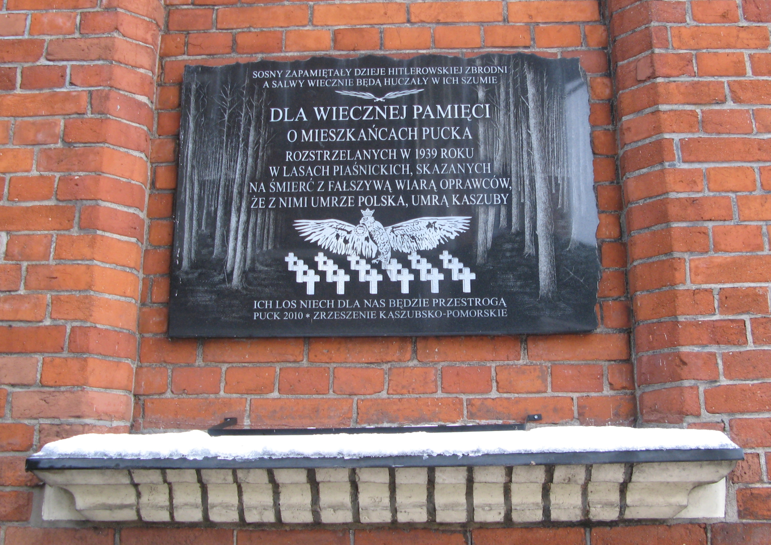 Plaque to citizens of Puck, victims of II world war